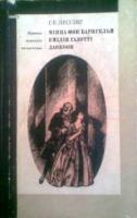 english